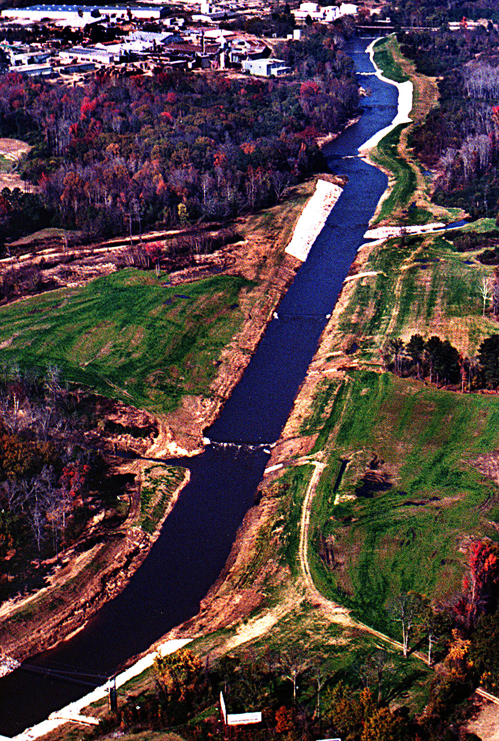 Aerial view of the Luxapalila Creek running through the center of Columbus, Mississippi, USA. Propst Park lies on the left side of the creek in this photograph. The Tuscaloosa Road bridge is visible at the top of the picture. The U.S. Army Corps of Engineers has constructed a flood-control project on the creek. View is upstream to the north. Note that the source photograph on the U.S. Army Corps of Engineers website has been erroneously placed in Milport, Alabama. Coordinates: 33°30′6.57″N 88°23′32.45″W / 33.501825°N 88.3923472°W